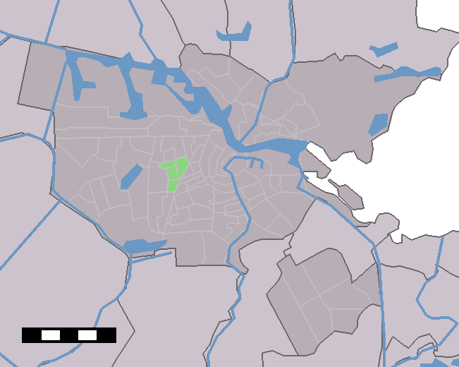 Location of neighbourhoods/districts in Amsterdam